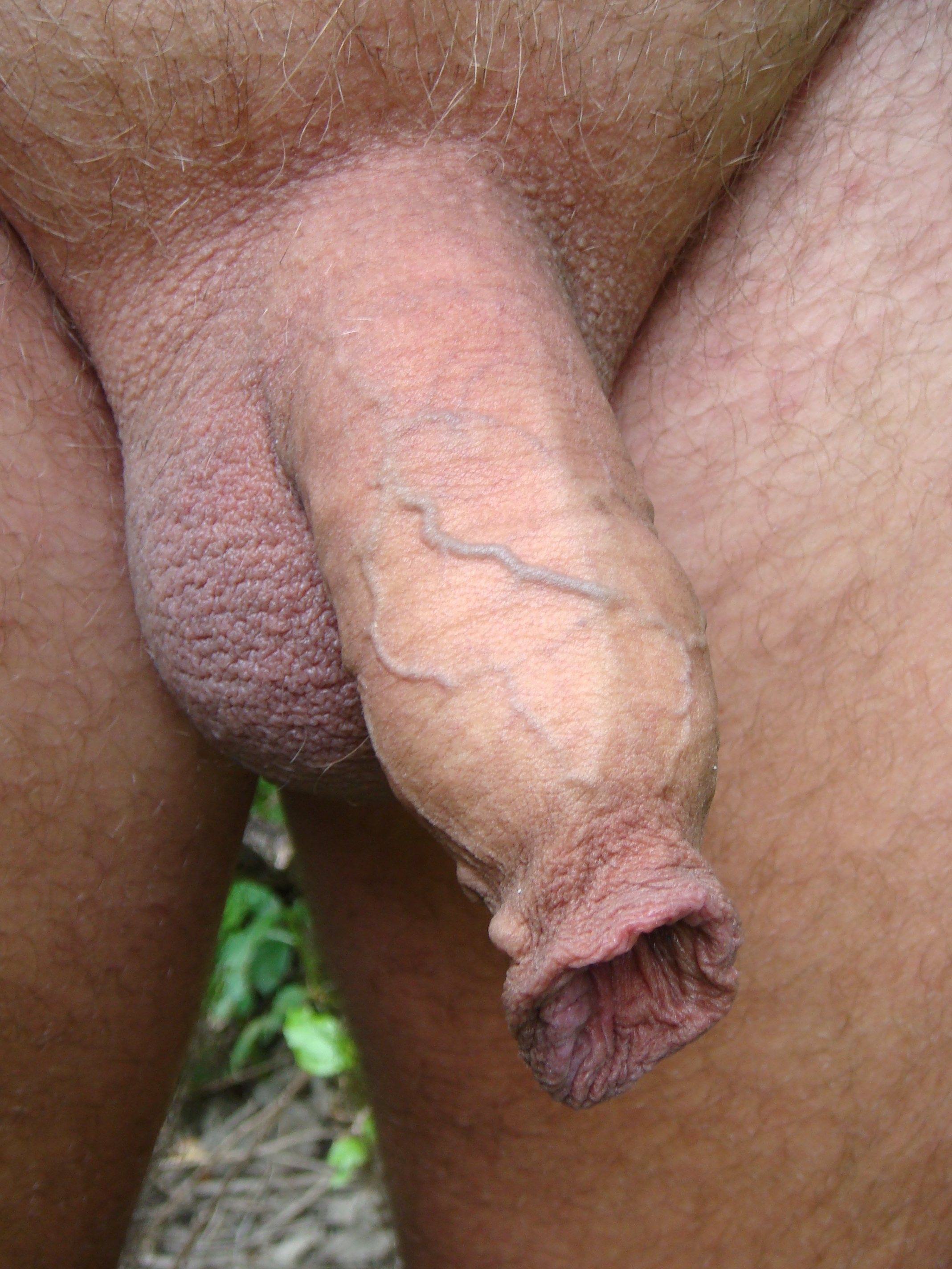 Acroposthion - (Gk akro = peak, posthe = foreskin). The visually defining, tapered, fleshy, nipple-like portion of the foreskin that advances beyond the terminus [tip] of the underlying glans penis.